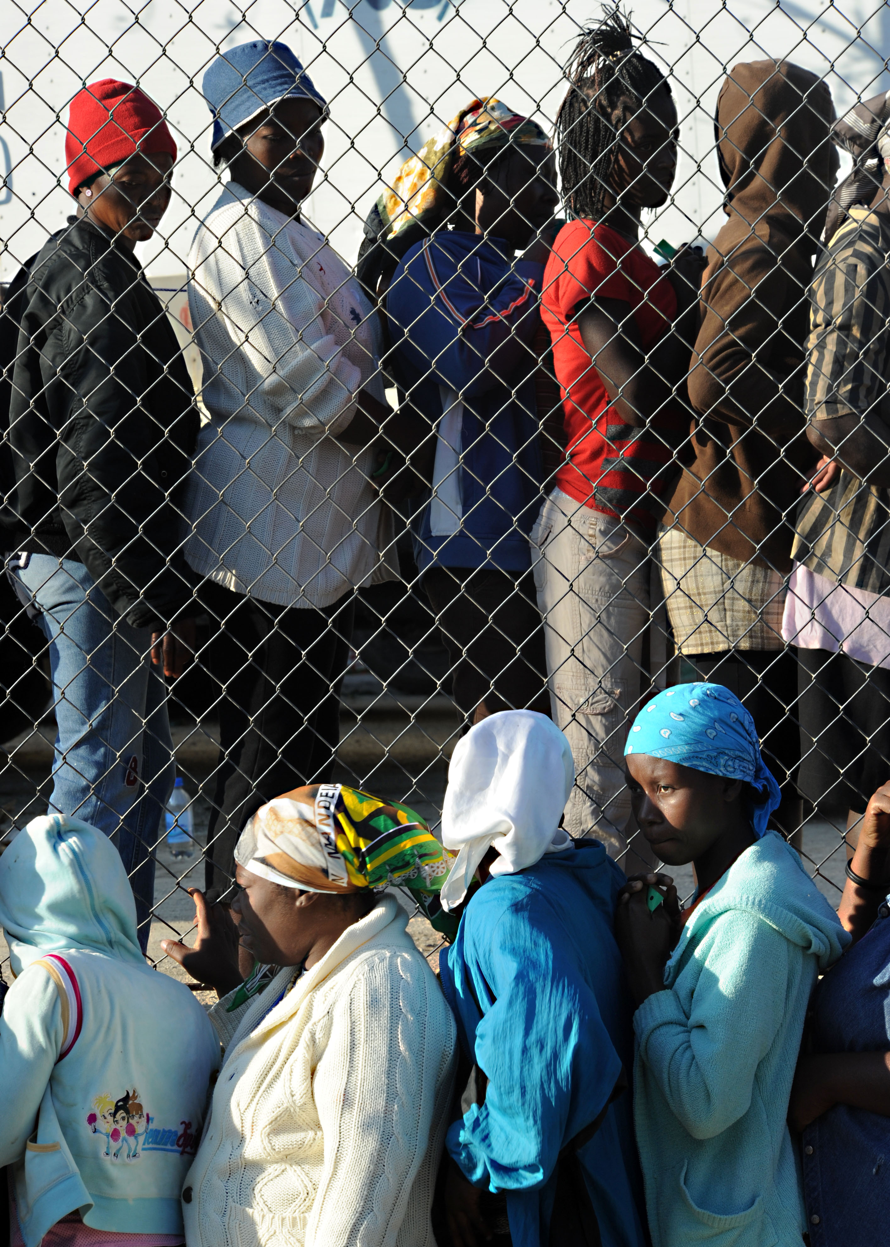 Haitian women stand in line to receive food distributed by the Irish non-governmental organization GOAL in Kenscoff, Haiti, Feb. 20, 2010.